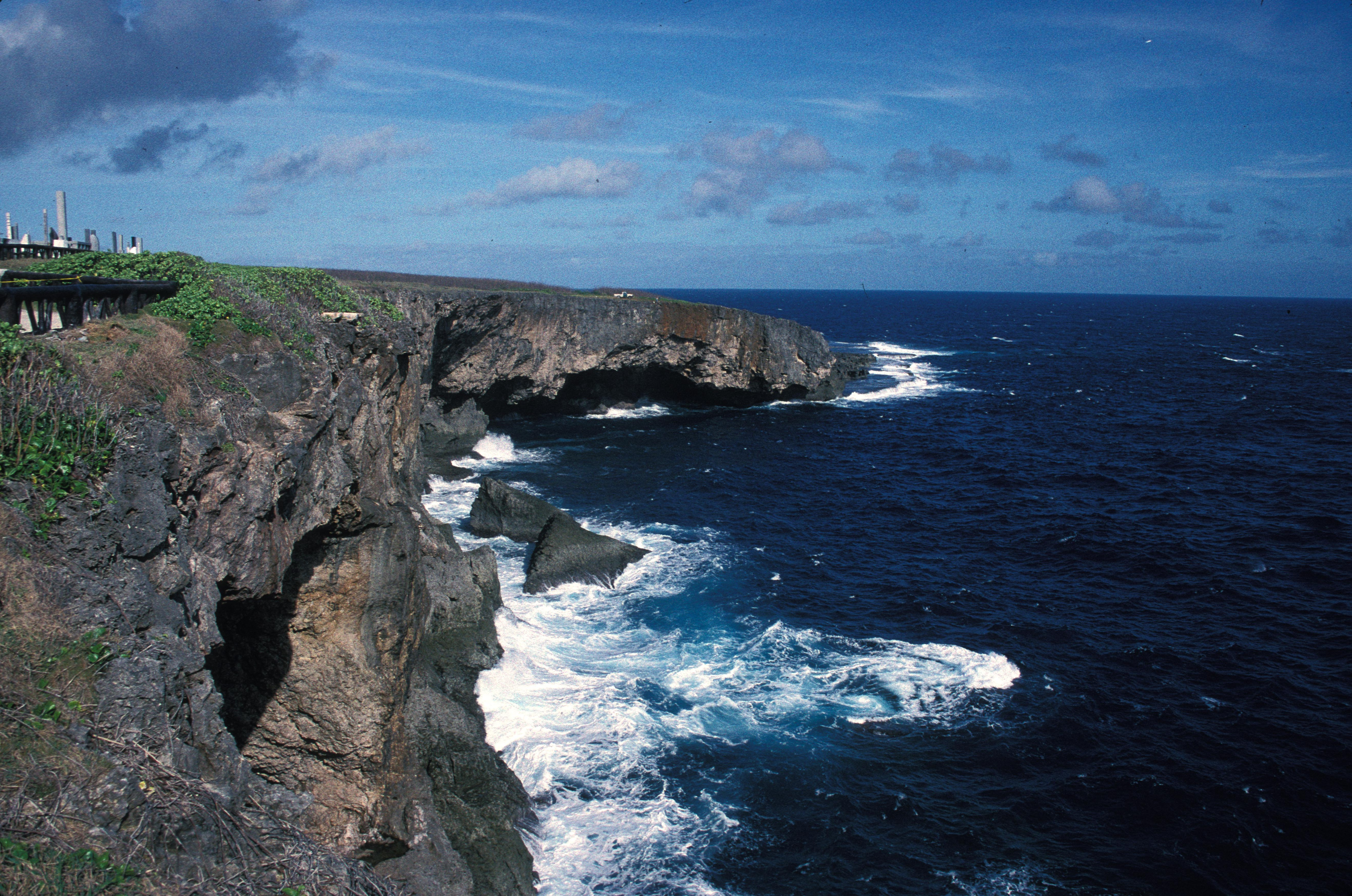 LOCATED NEAR THE NORTHERN END OF THE ISLAND WHERE JAPANESE CIVILIANS THREW THEMSELVES OVER THE CLIFF RATHER THAN FALL INTO AMERICAN HANDS